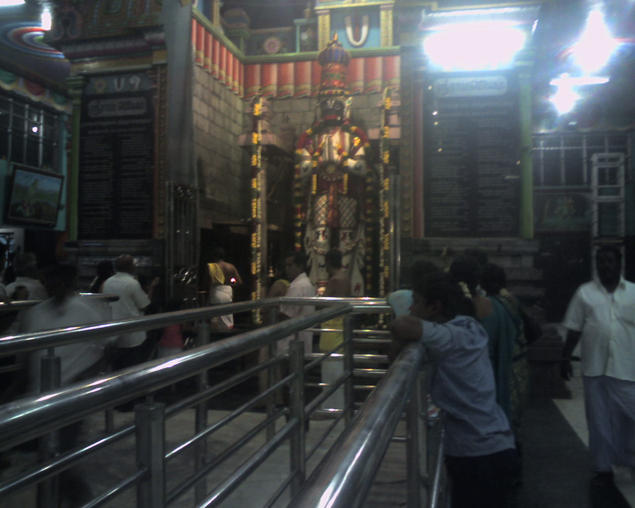 Anjaneyar temple Namakkal